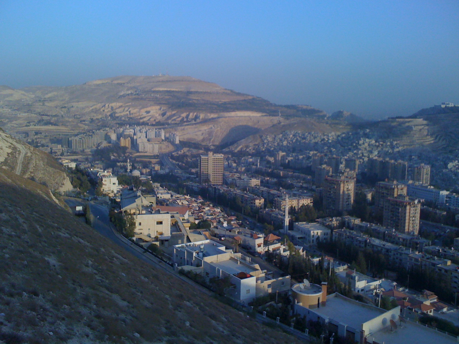 Project Dummar